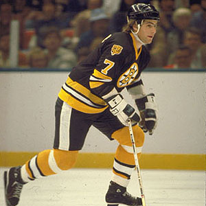 Boston Bruins' defenseman Ray Bourque, at the Bruins' 1981 home opener.